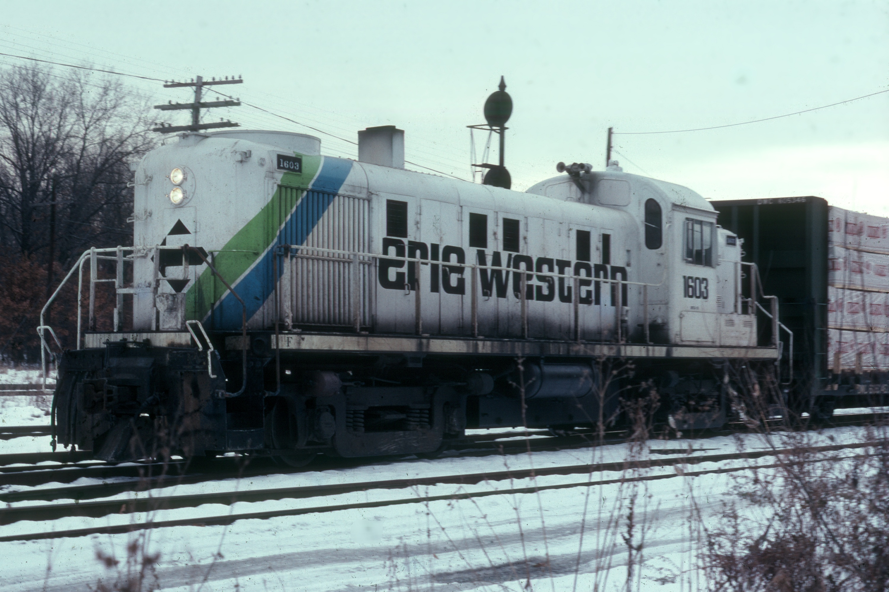 Erie Wester RS3 #1603 in Hammond, Indiana in December 1978